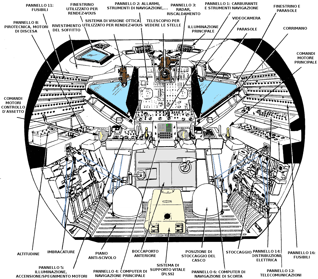 Apollo Program; drawing of lunar module spacecraft : inside view (french)